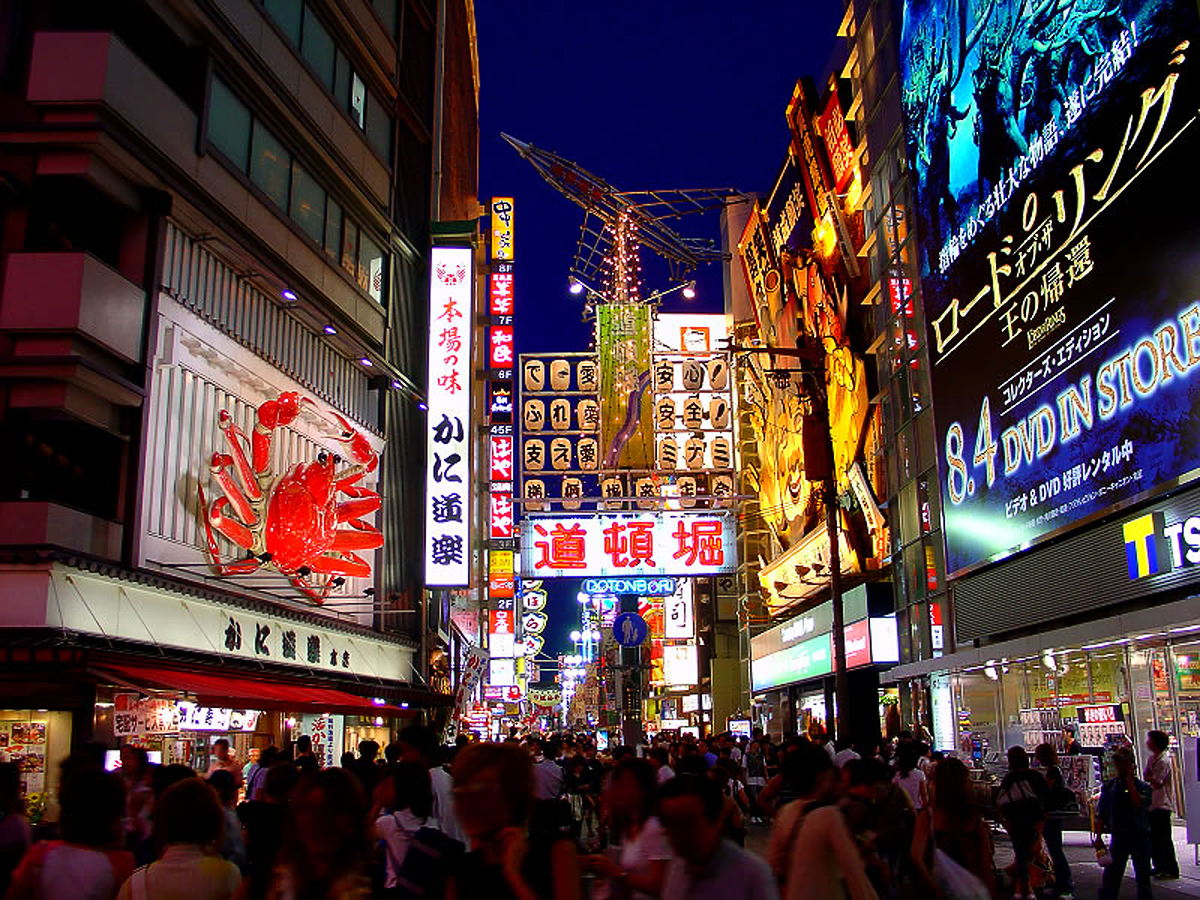 Dotonbori.(Chuo Ward, Osaka City, Osaka Prefecture, Japan)